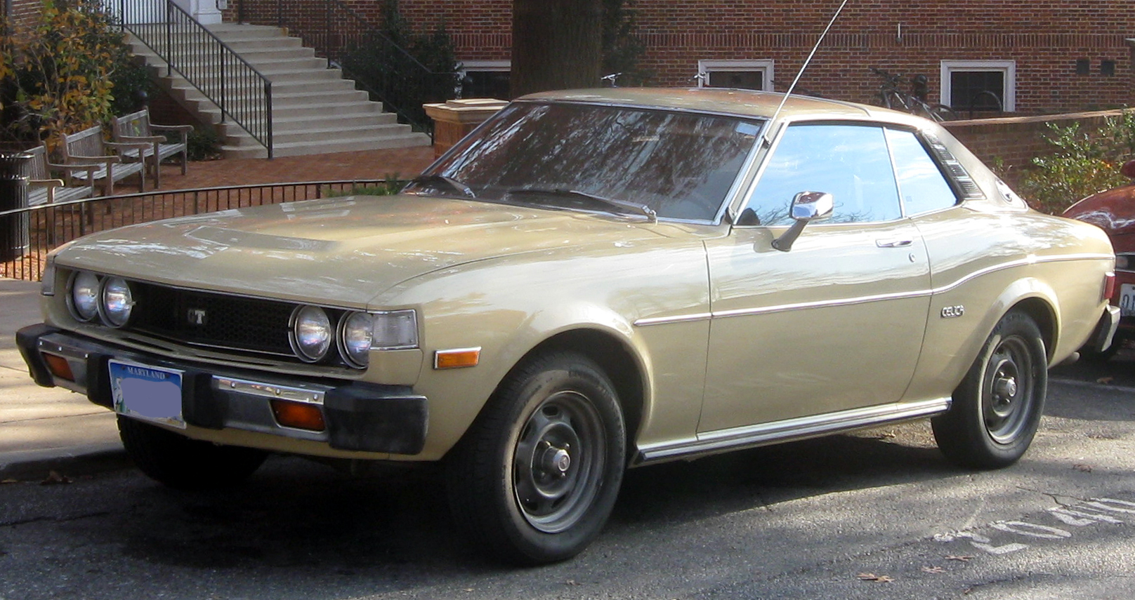 Toyota Celica GT (RA24) photographed in College Park, Maryland, USA.